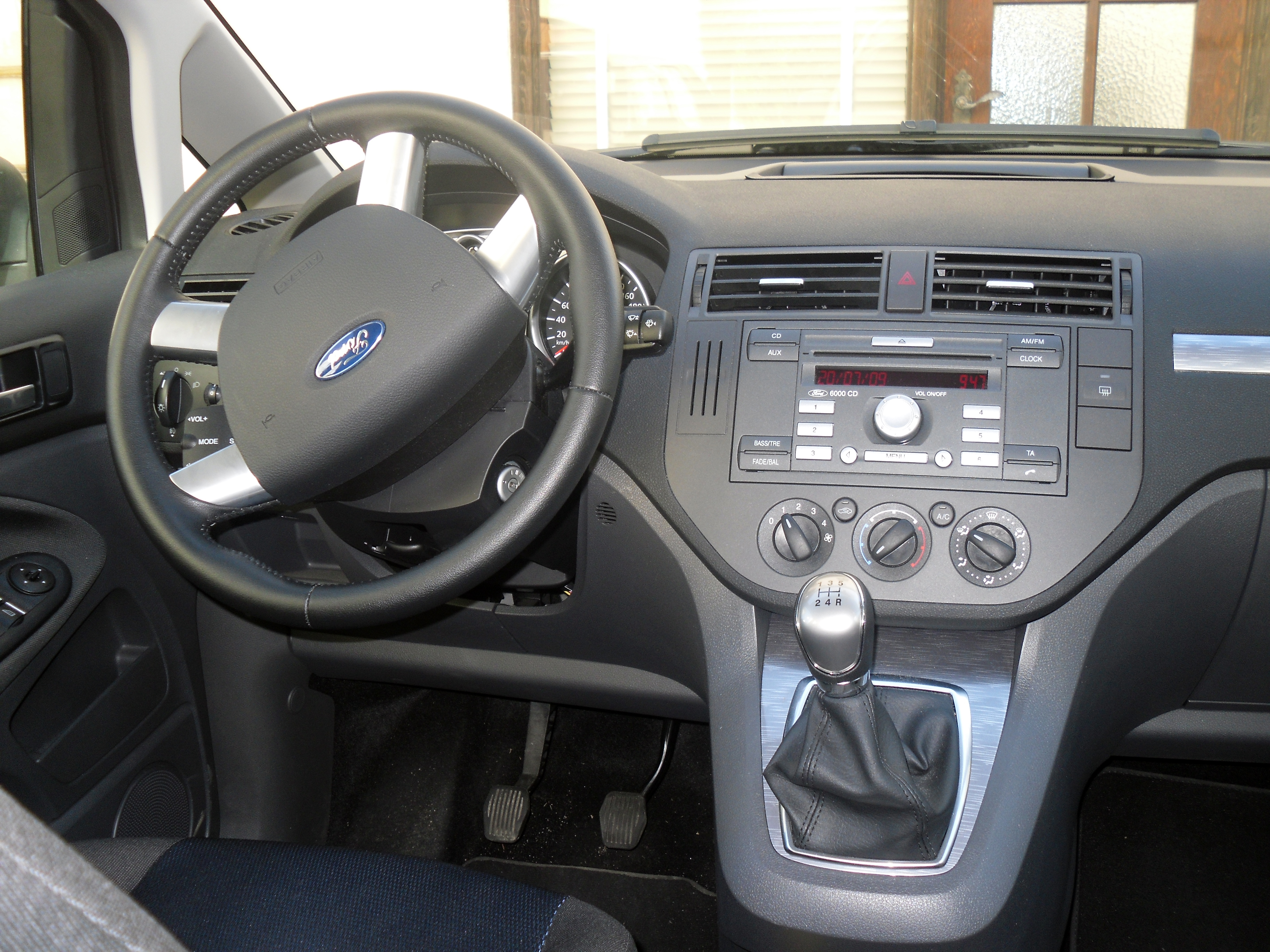 Dashboard of a Ford C-MAX mk1 post-facelift with a 1560 cc, 66 KW, Euro 4 diesel engine. Registred in September 2008 in Lazio, Italy.